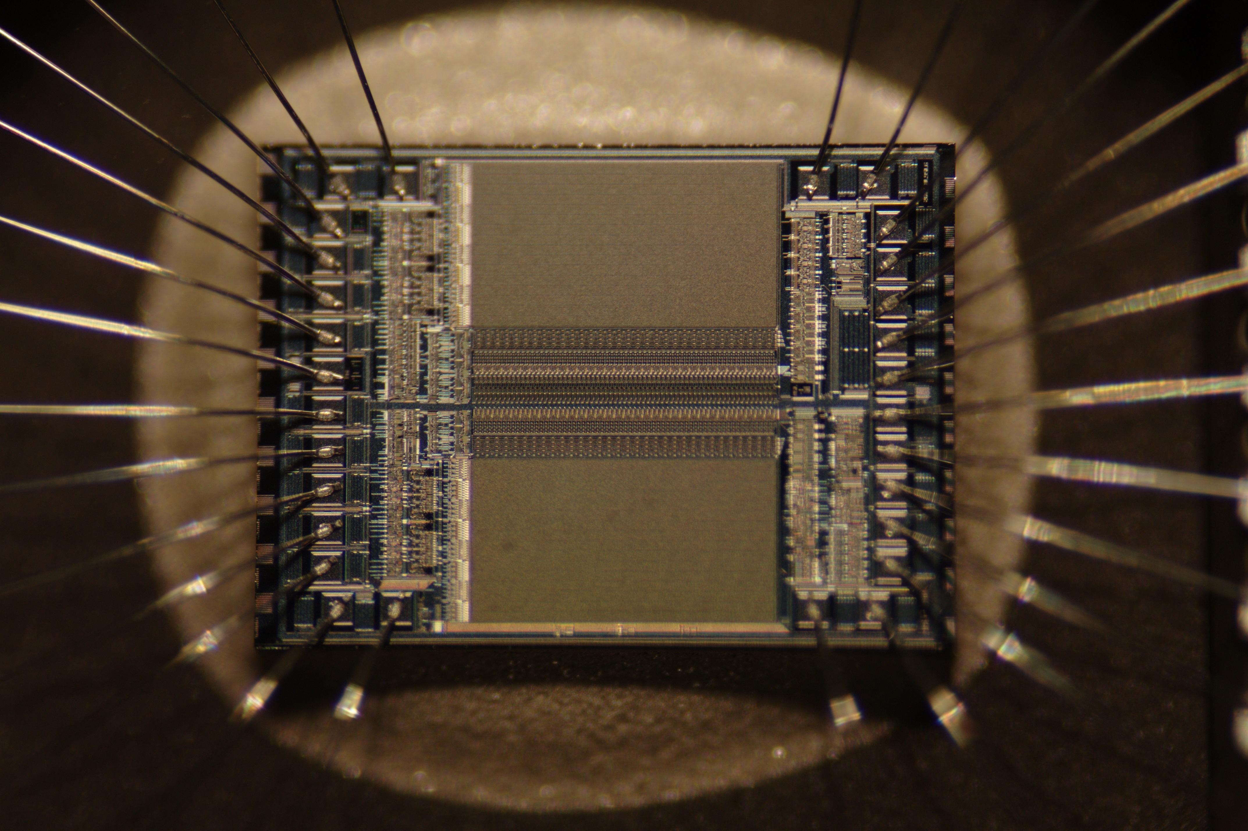 An EPROM microchip die showing the detail of the integrated circuit itself and the silver wires which connect the die to legs of the chip. The image covers an area of approximately 5 by 4 mm. This is a high-magnification view of the die in the chip in the foreground of this image: File:Microchips.jpg